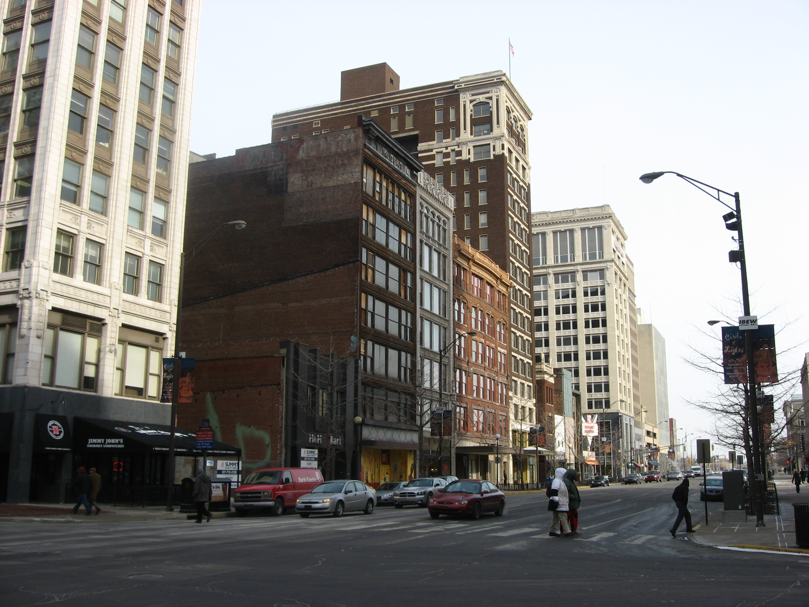 Buildings on the northern side of Washington Street in downtown Indianapolis, Indiana, United States, viewed from the Meridian Street intersection. This block of Washington is part of the Washington Street-Monument Circle Historic District, a historic district that is listed on the National Register of Historic Places.